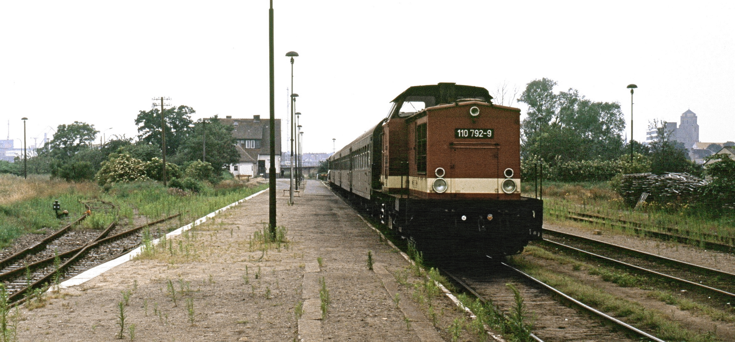 Wolgaster Fähre station